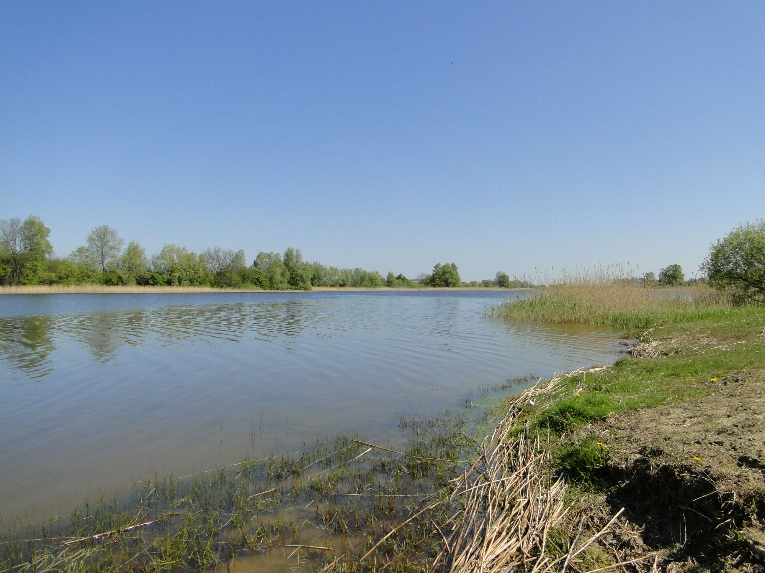 Lake Neetzkaer See in Neetzka, district Mecklenburg-Strelitz, Mecklenburg-Vorpommern, Germany